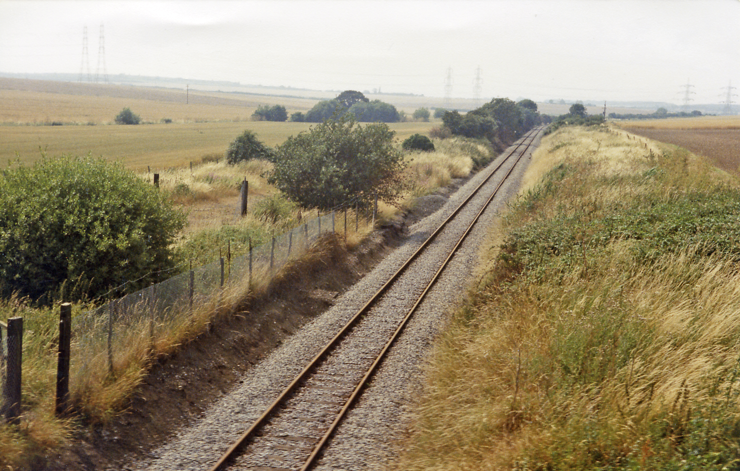 Site of Beluncle Halt, 1983. View westward, towards Hoo Junction and Gravesend: ex-SE&CR Gravesend - Hoo Junction - Port Victoria (Hundred of Hoo) line. The Halt closed from 4/12/51 when passengers services to Allhallows-on-Sea and to Grain (late Port Victoria) ceased, but the line remained open to serve industry at Grain and subsequently at Thamesport.